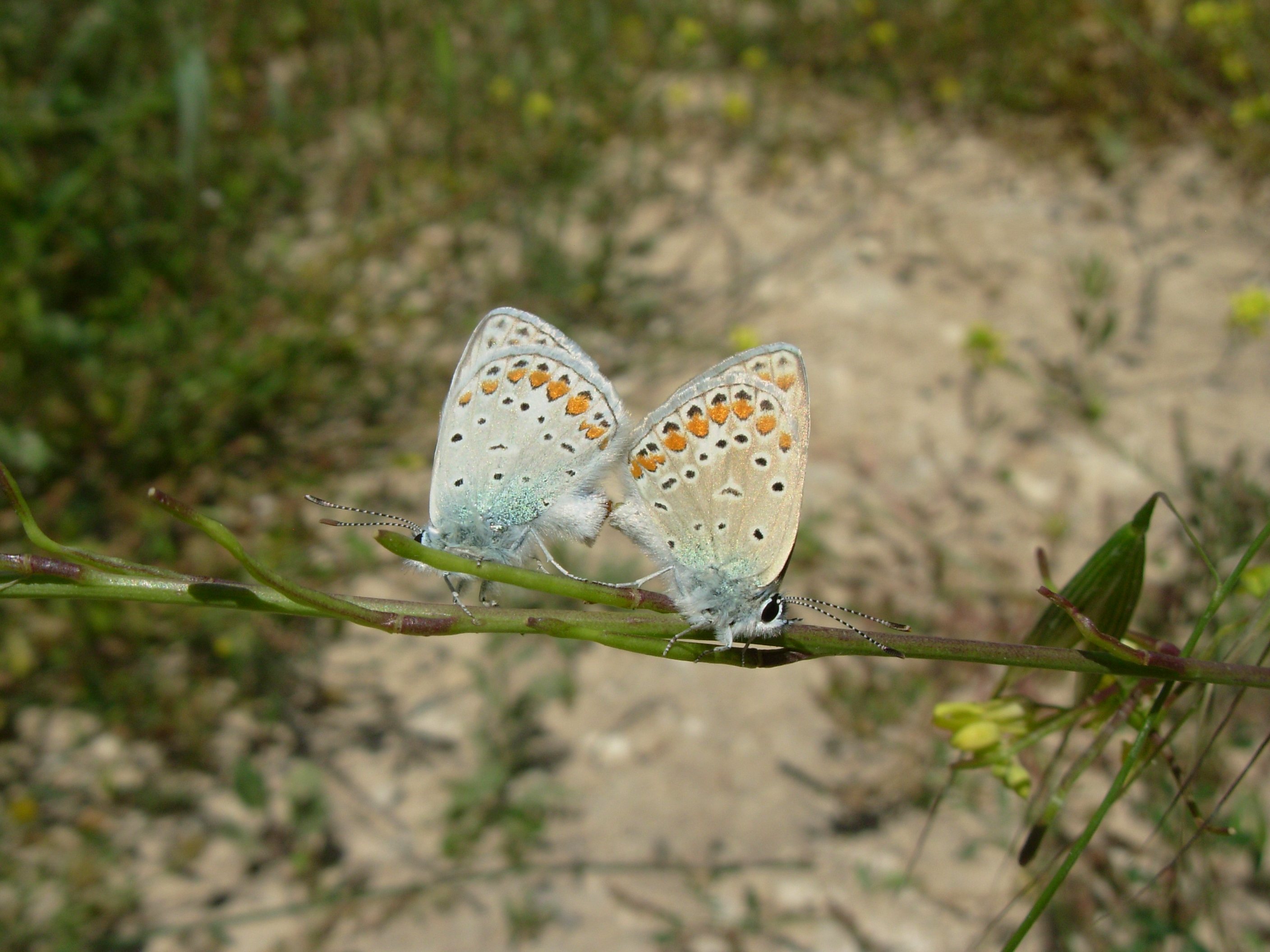 זוג כחלילי שברק בהזדווגות